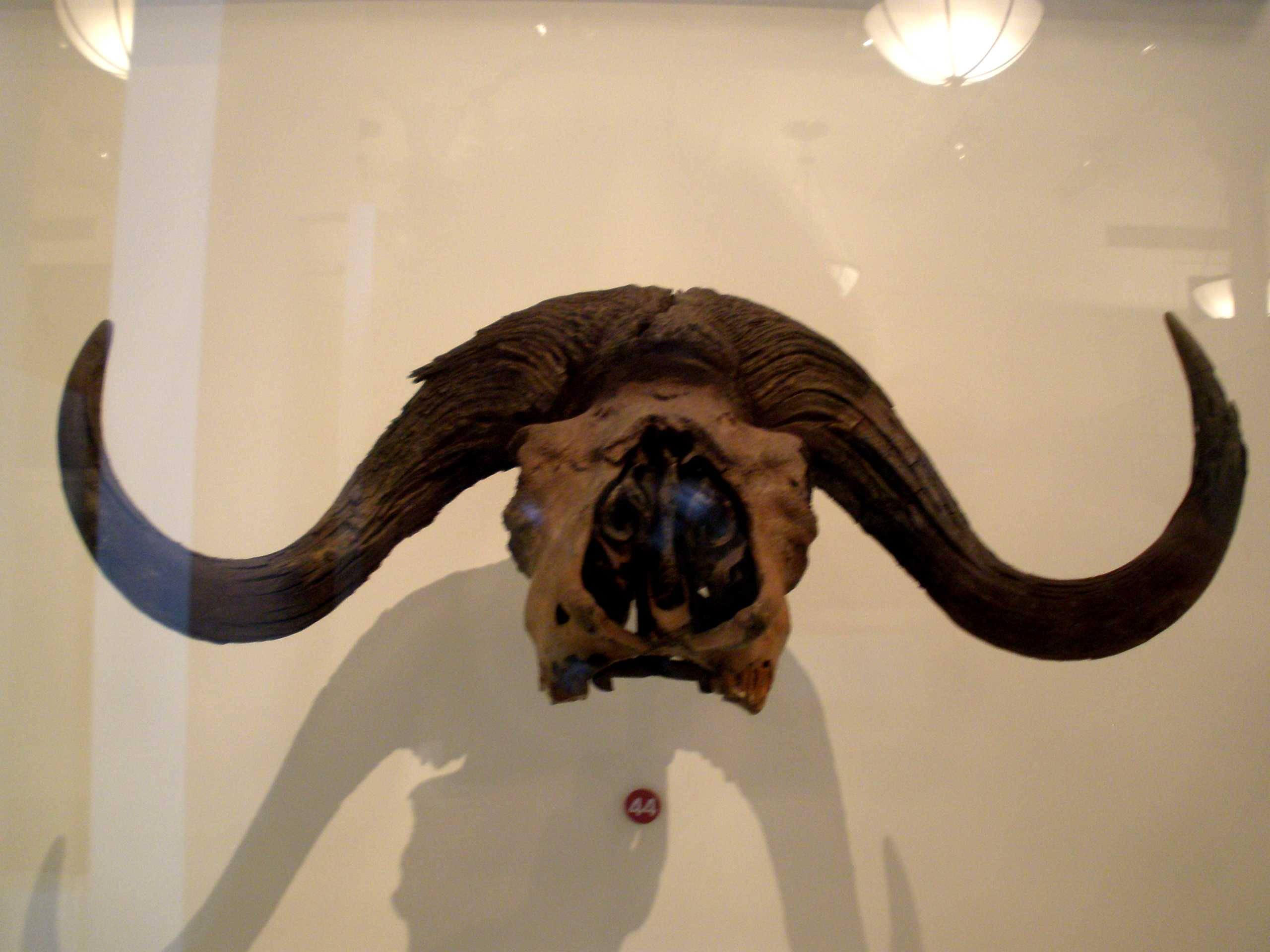 Skeleton of Bootherium bombifrons, a fossil musk ox relative